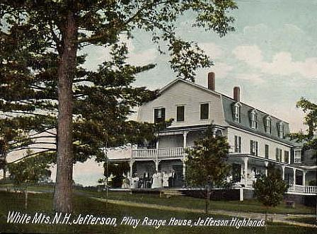 Pliny Range House in 1911, Jefferson, NH; from an old postcard.